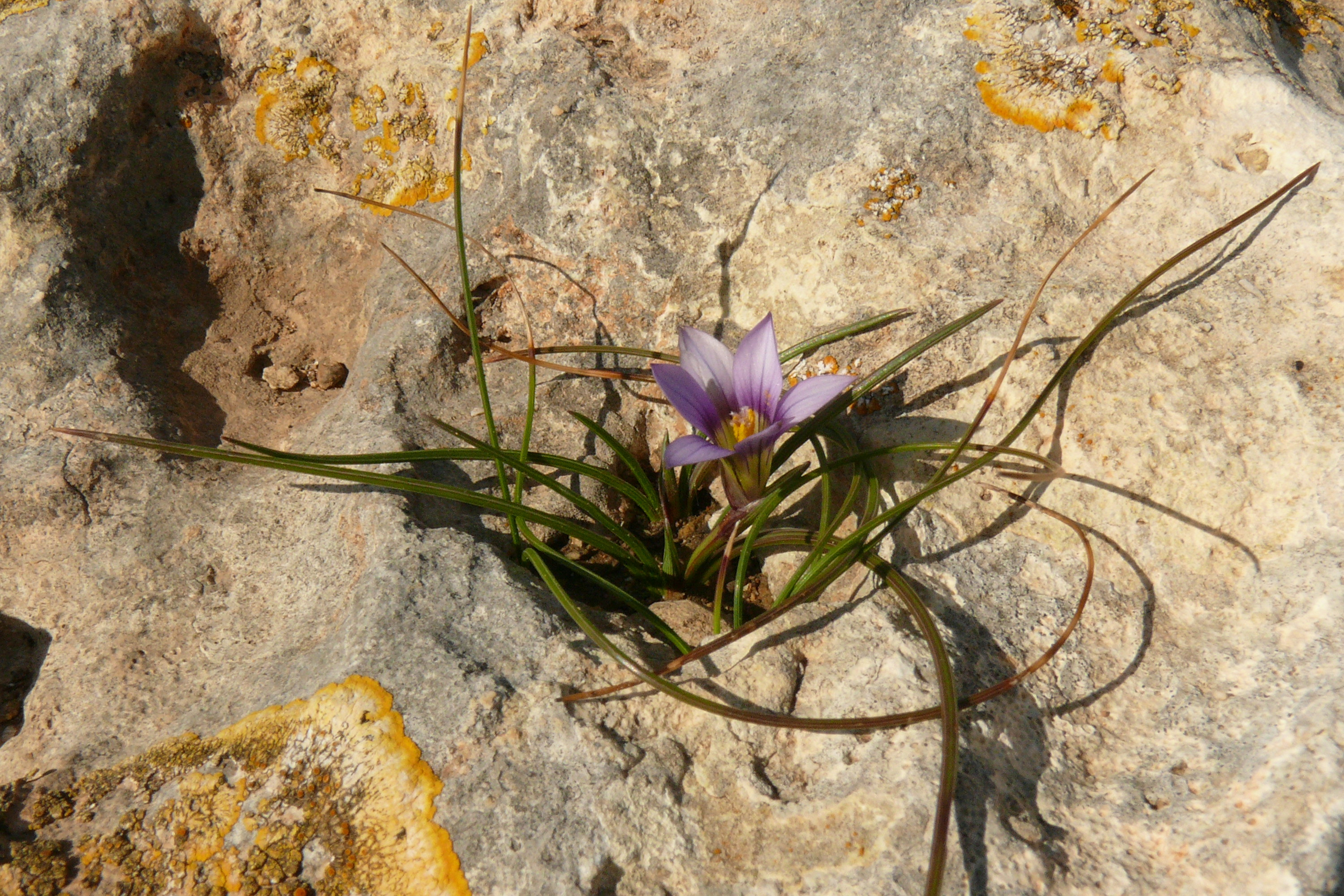 Romulea columnae